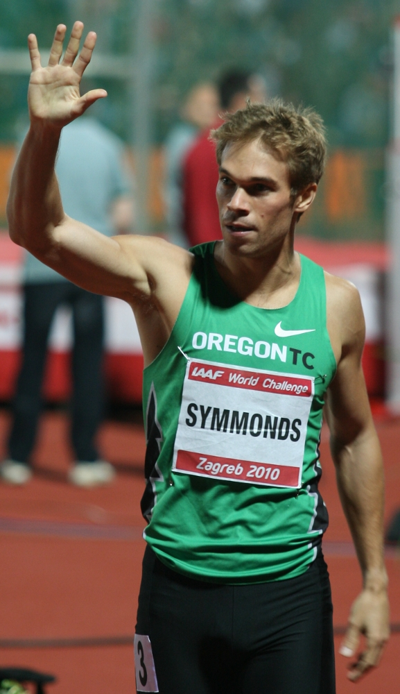 Nick Symmonds in Zagreb, 2010